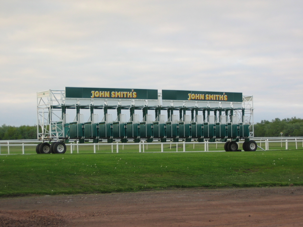 Musselburgh Racecourse, East Lothian, Scotland